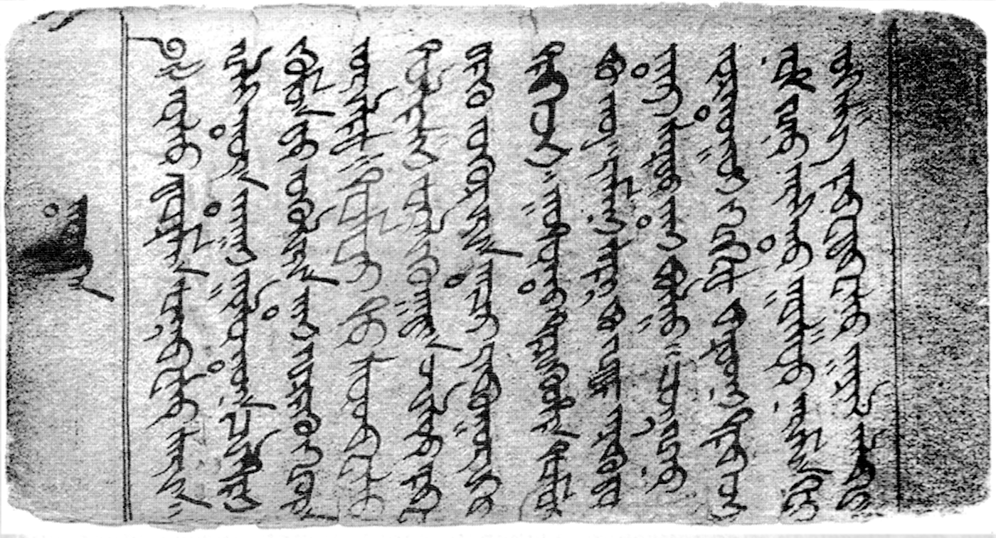 An oirat manuscript in "clear script" (todo bichig), Collection and photograph: Otgonbayar Chuluunbaatar.